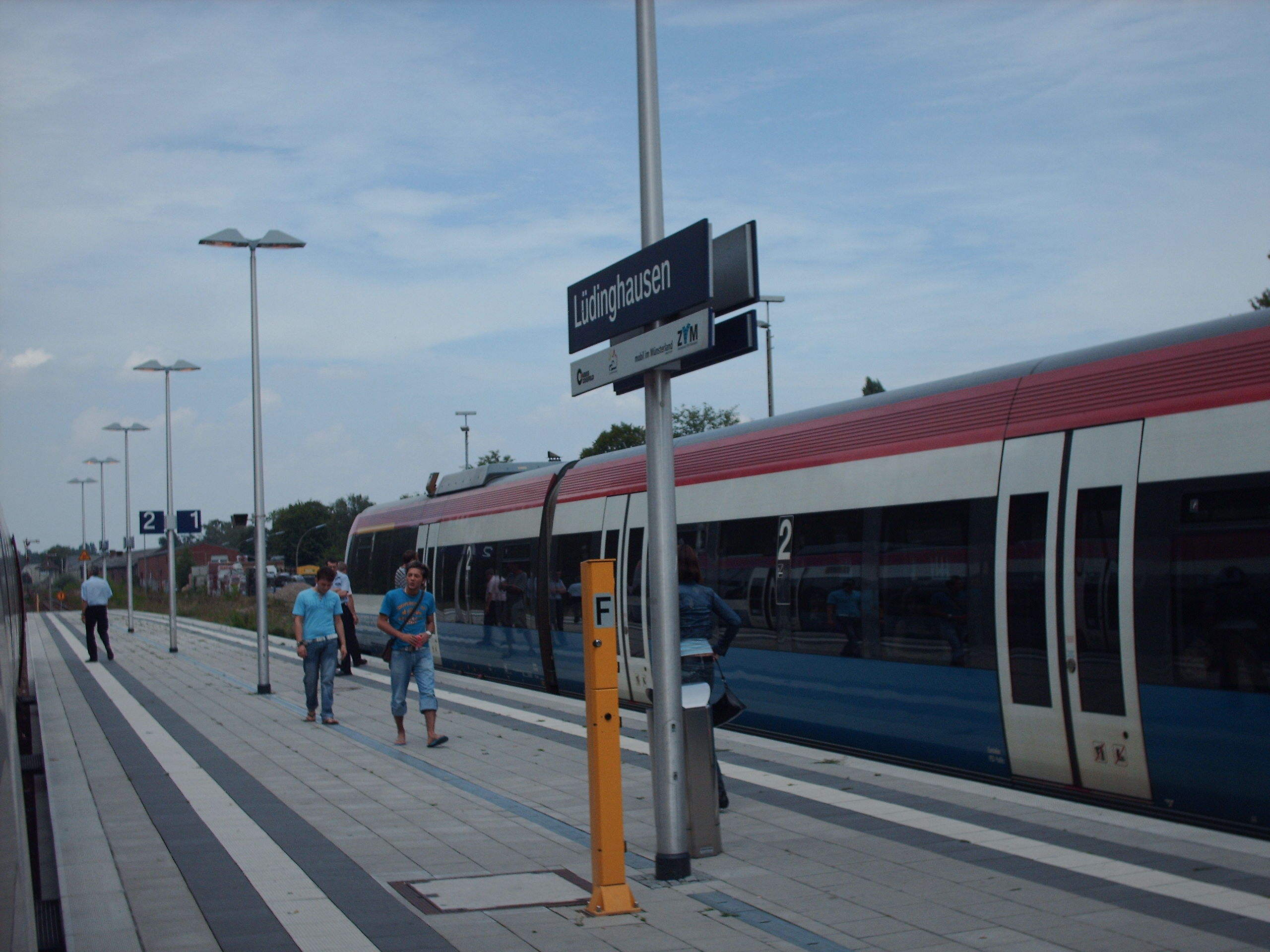 Lüdinghausen station, Lüdinghausen, Germany check usage